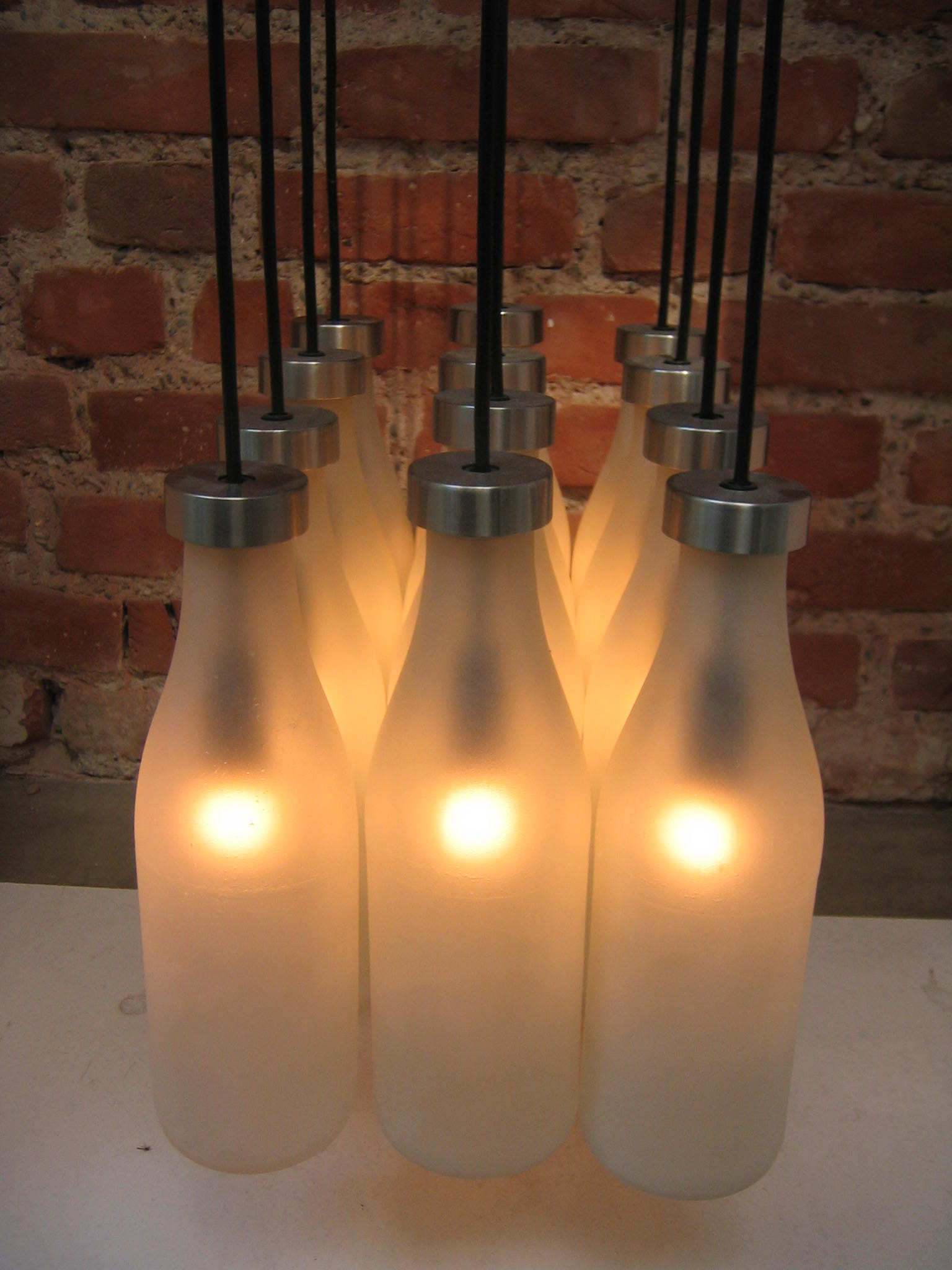 Melkflessenlamp van Tejo Remy